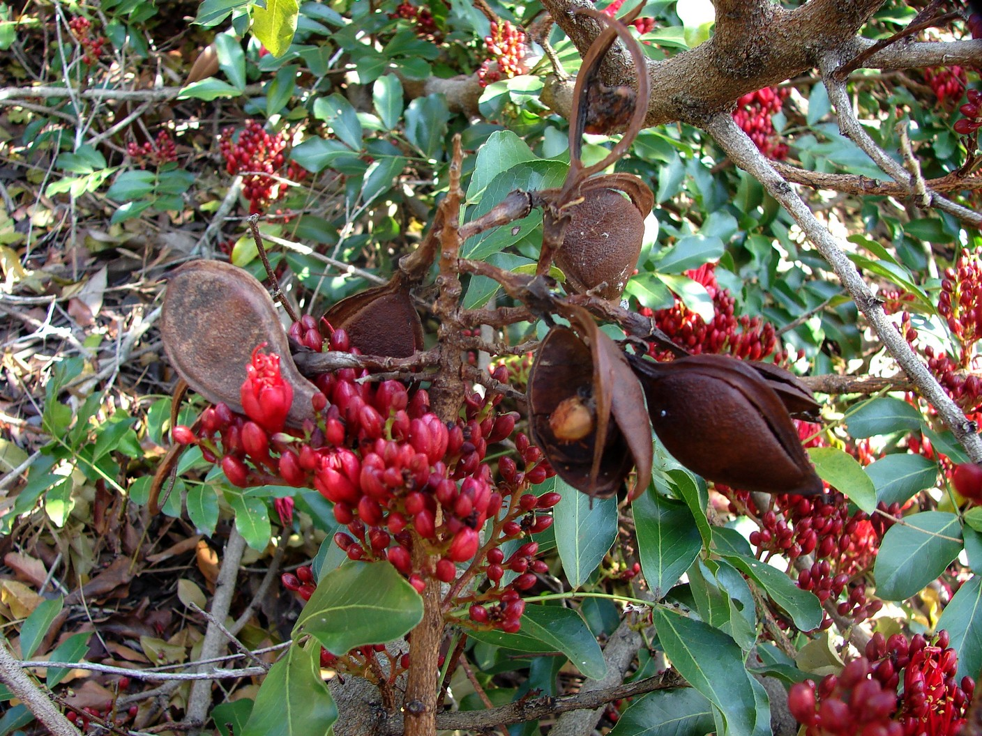 Schotia brachypetala - Drunk Parrot Tree